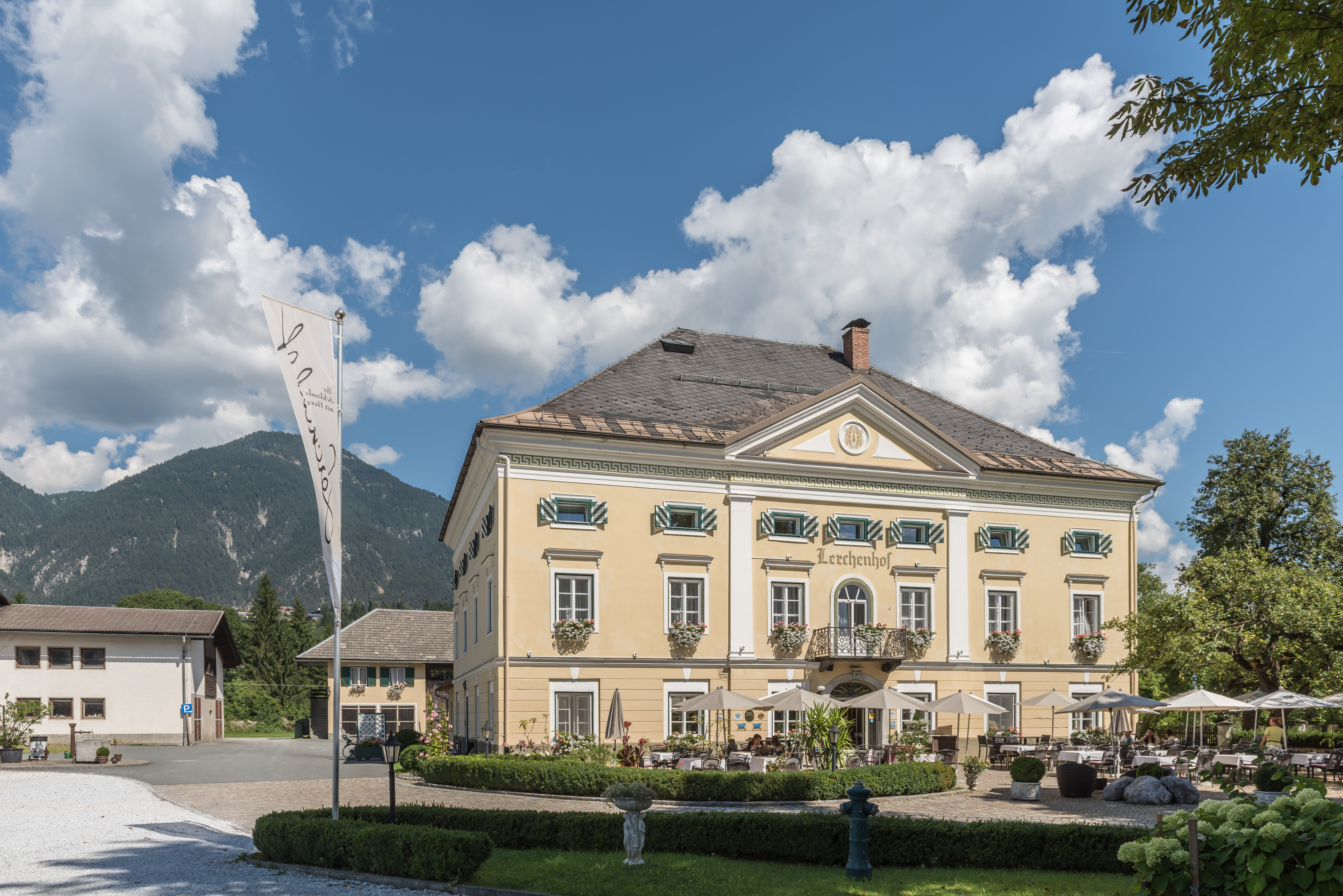 Manor Lerchenhof, designed by architect Domenico Venchiarutti, built from 1848 till 1851, Untermoeschach #8, municipality Hermagor-Pressegger See, district Hermagor, Carinthia, Austria, EU